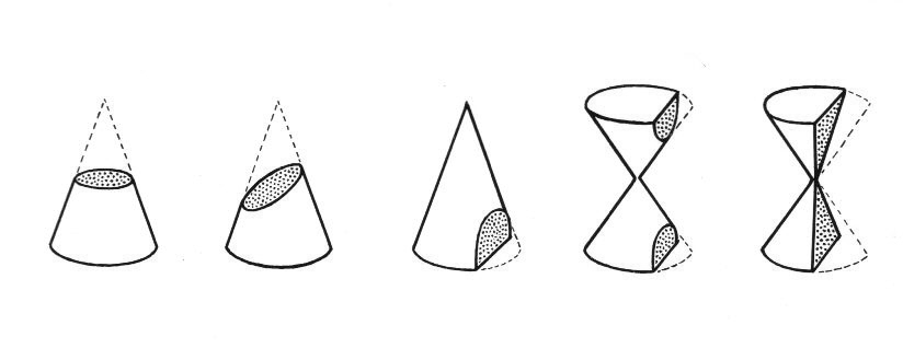 b/w line art example of a conic section